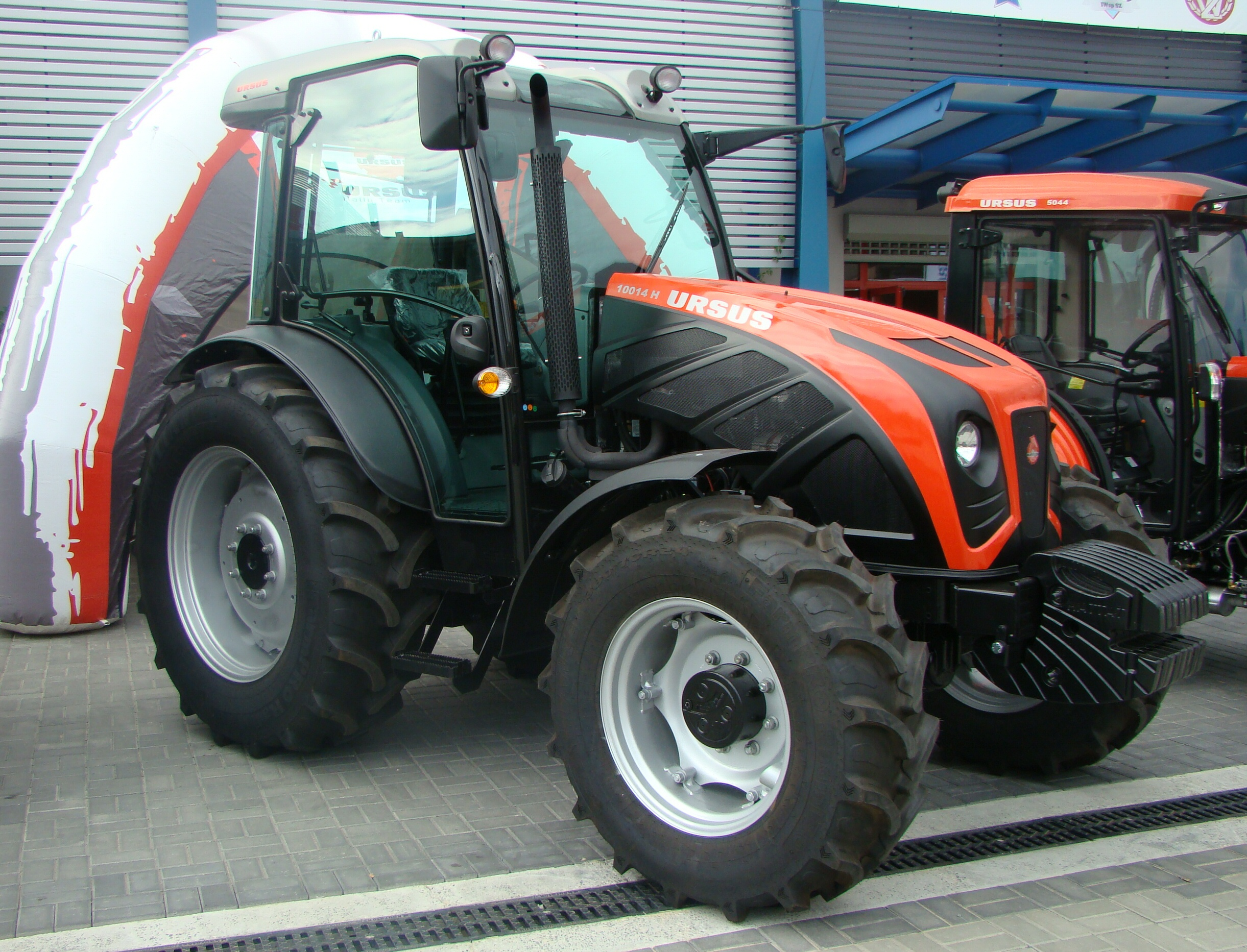 Ursus 10014H tractor in Kielce, Poland. MSPO 2013.